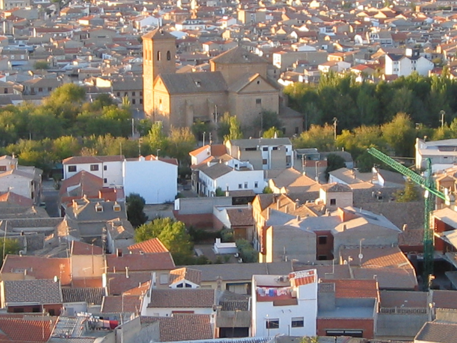 Town of Consuegra in Spain